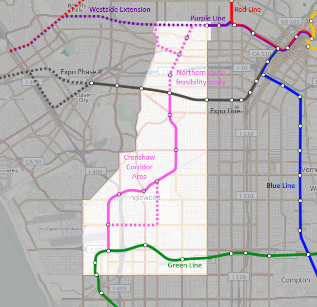 Map of study area and route for the future Metro Crenshaw Line in Los Angeles County, as of August 2008